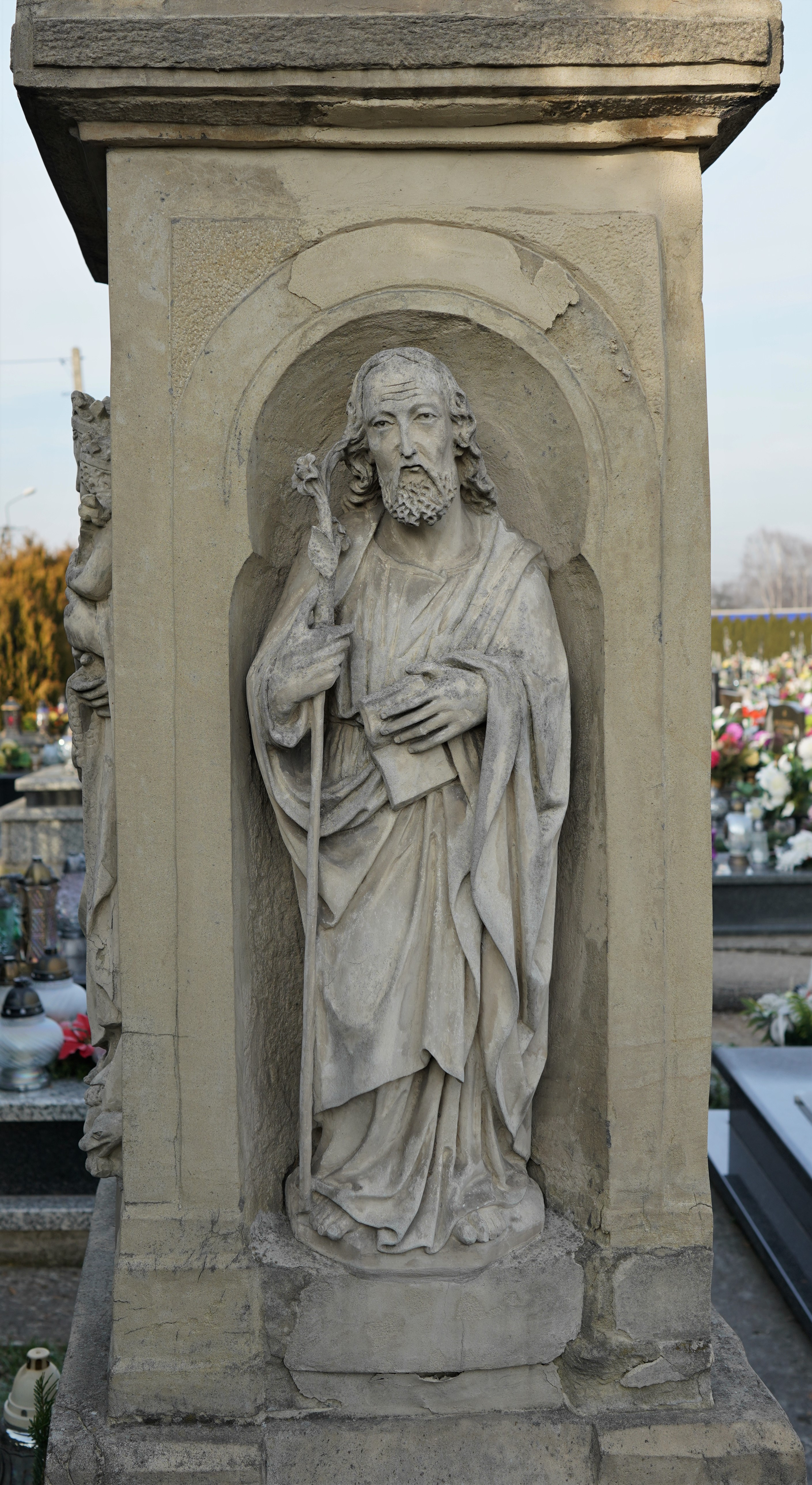 Cemetery in Radziszów.